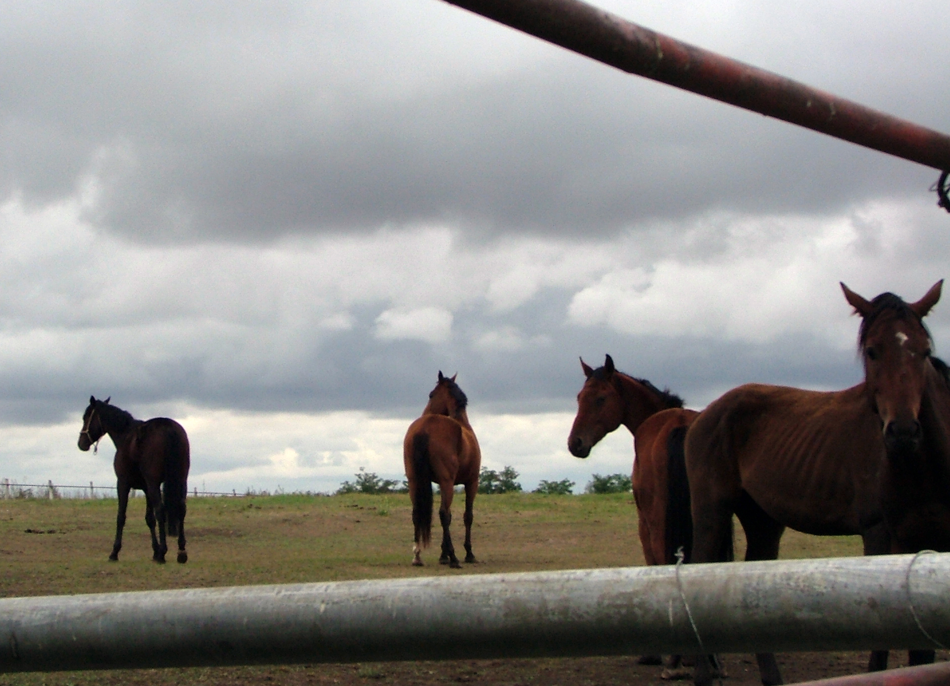 Ергела у Зобнатици